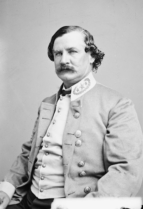 Portrait of Maj. Gen. Benjamin F. Cheatham, officer of the Confederate Army, The Library of Congress/American Memory Project, Digital ID: cwpb 05989; 1 negative: glass, wet collodion.